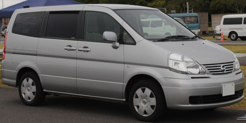 Nissan Serena unmarked car.